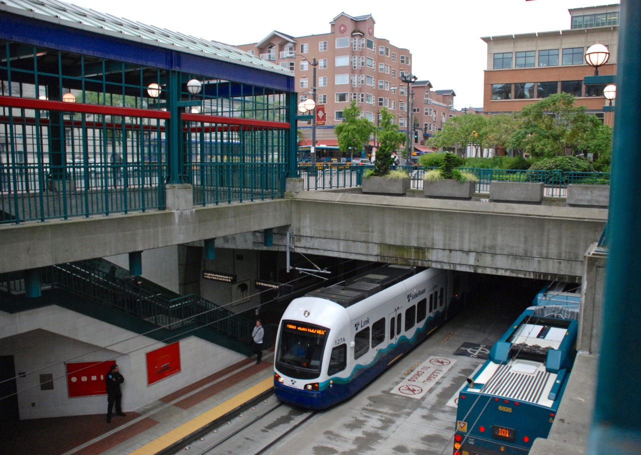 Both levels of the Downtown Seattle Transit Tunnel's International District/Chinatown station with a Link light rail train northbound and a King County Metro bus southbound. This view is looking down into an open-air section of the station from the street-level walkway next to Union Station. This DSTT station opened in 1990, for use exclusively by dual-mode buses (diesel/trolley) that operated as trolleybuses in the tunnel. It was modified in the late 2000s for use additionally by Sound Transit's Link light rail, and Link service began in 2009.